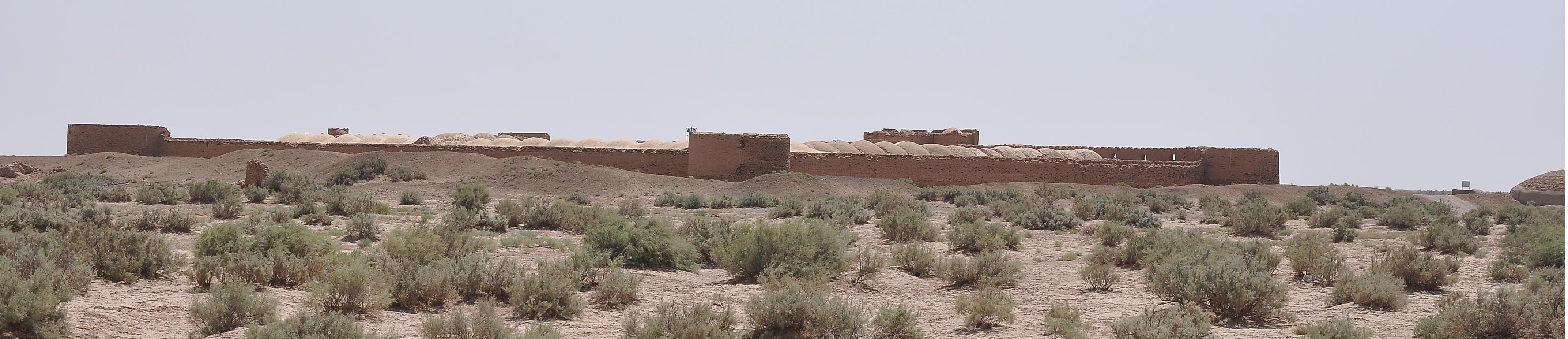 Panorama of Dayr-e Gachin